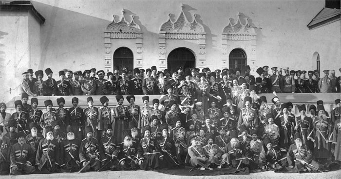 Cossaks_Imperator_Bodyguard